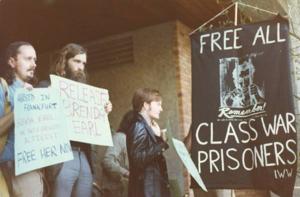 I.W.W. members picket in Sydney outside Lufthansa Airlines in support of Brenda Earl Christie, June 1981.